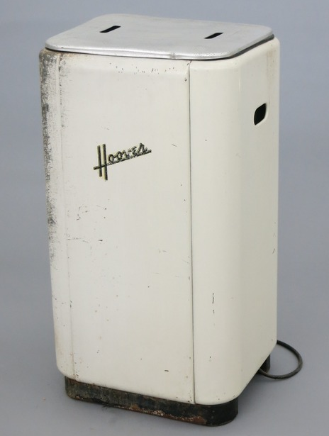 Hoover 0307 pulsator washing machine, manufactured from 1947-1957. This was Hoover's first pulsator washing machine, and about 325 000 were made.